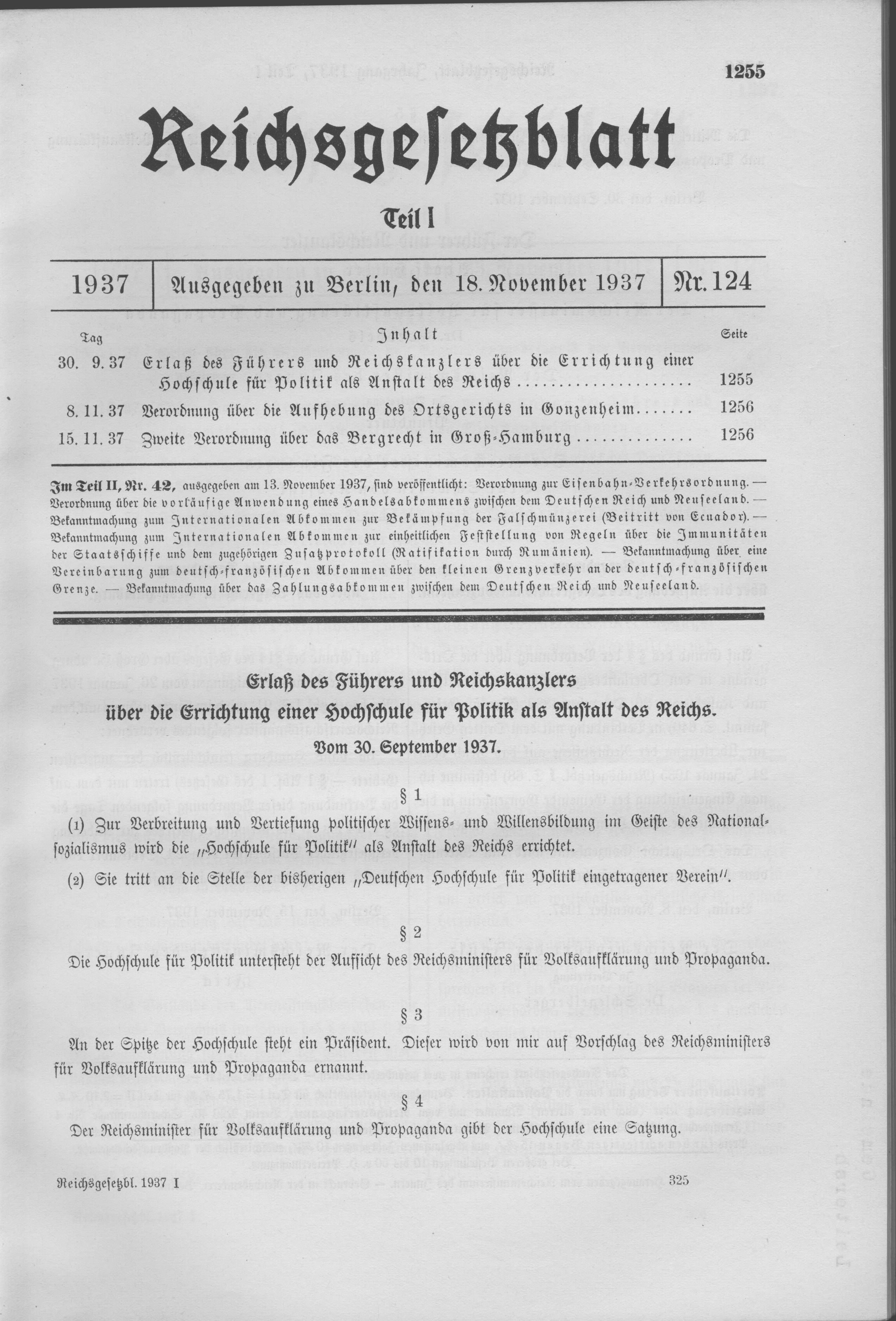 Scan from the Imperial Law Gazette of Germany, 1937, part 1